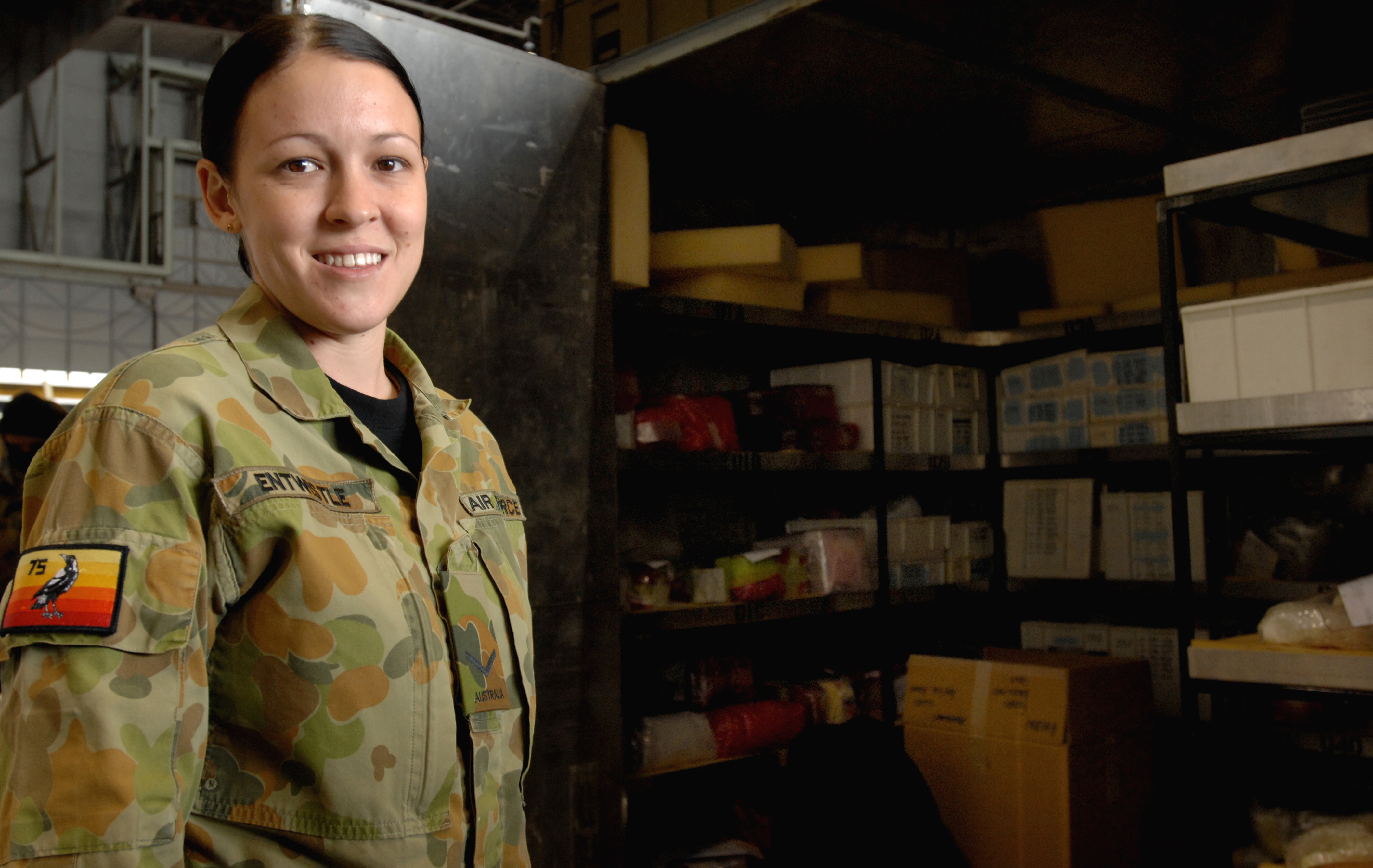 Royal Australian Air Force Leading Aircraft Woman Patricia Entwistle poses for a photo prior to performing preflight maintenance on an Australian FA-18 Hornet jet during exercise Red Flag-Alaska on Eielson Air Force Base, Alaska, April 7, 2008. Red Flag-Alaska, a series of Pacific Air Forces field training exercises for U.S forces and their allies, provides joint offensive counter-air, indirection, close air support and large force employment training in a simulated combat environment.